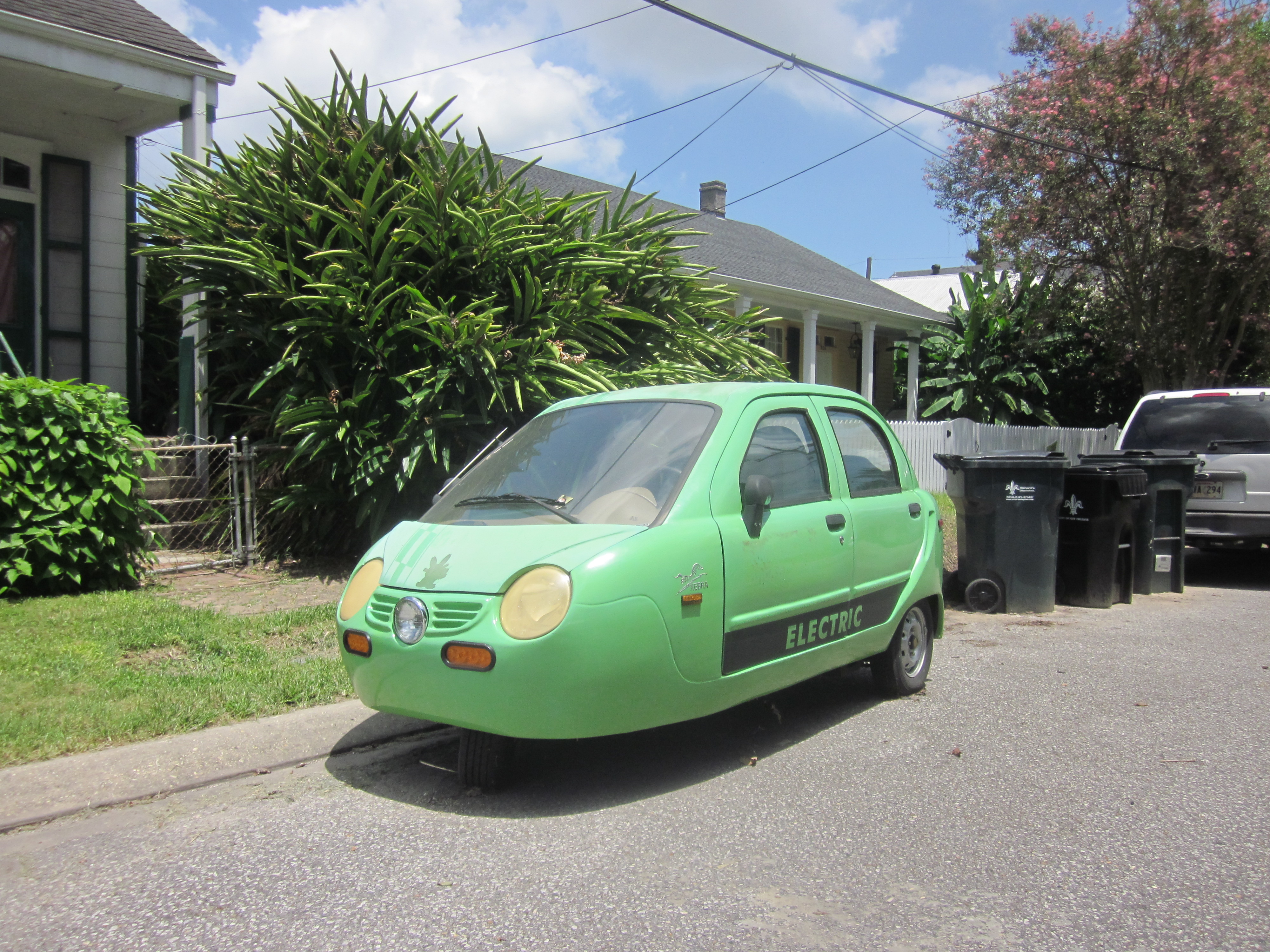 Zap Xebra electric car on Jolliet Street, Carrollton Riverbend section of New Orleans